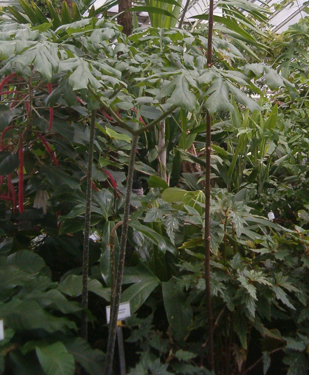 At Botanical Gardens Berlin-Dahlem Species Anchomanes difformis Synonym Anchomanes welwitschii